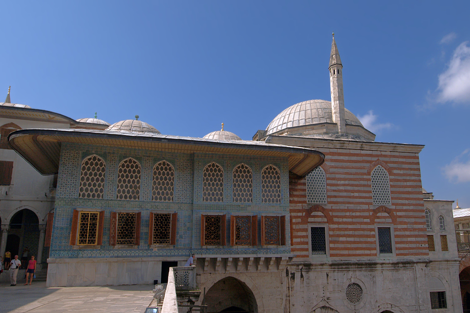 Topkapı Palace, courtyard of the apartments of the Crown Prince in the Harem.